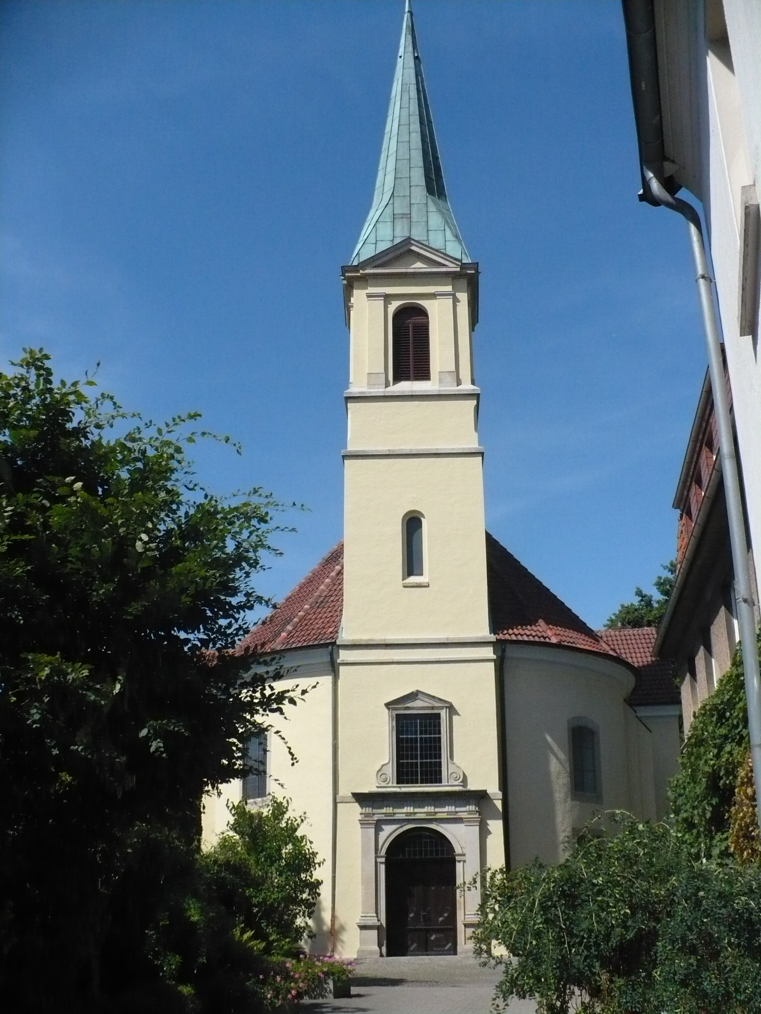 Petrichurch Minden from 1743